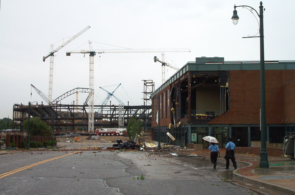 Damage to the Gibson Guitar Factory in downtown Memphis, Tennessee following "Hurricane Elvis"